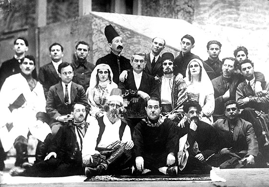 Actors of opera "Ashiq Qarib" of Zulfugar Hajibeyov. Dirigent Muslim Magomayev in the center. Head director of the theater Abbas Mirza Sharifzade stands just behind him.